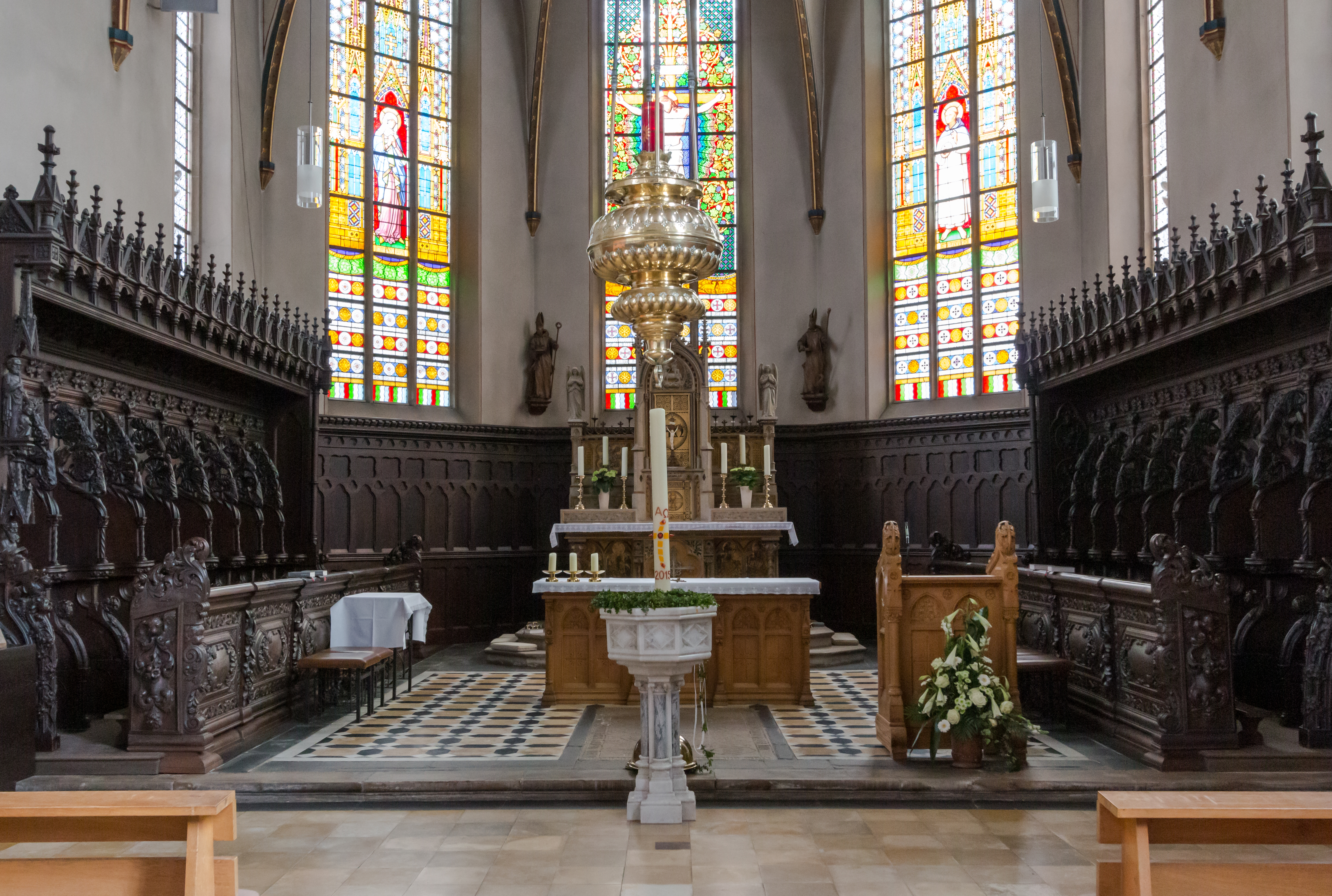 Interior of the St. Jacob's Church, Kirchspiel, Dülmen, North Rhine-Westphalia, Germany This image shows a heritage building in Germany, located in the North Rhine-Westphalian city Dülmen (no. 22).